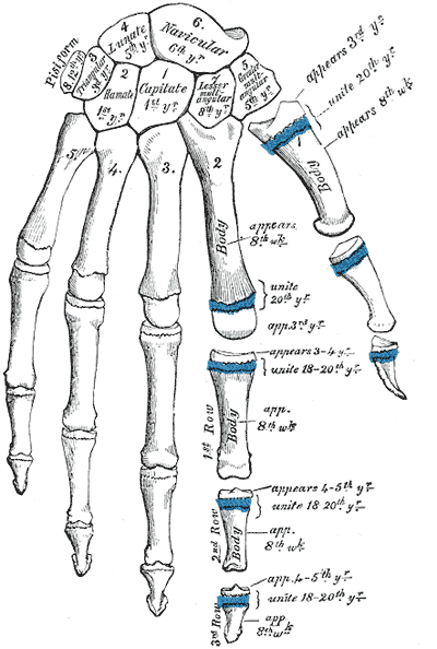 Plan for the development of the hand.